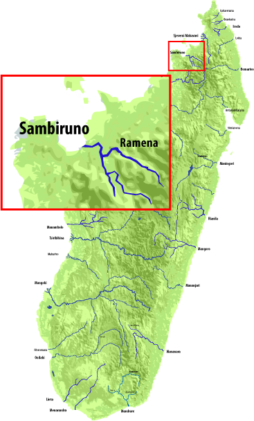 Description of river Sumbiruno / Sambiruno